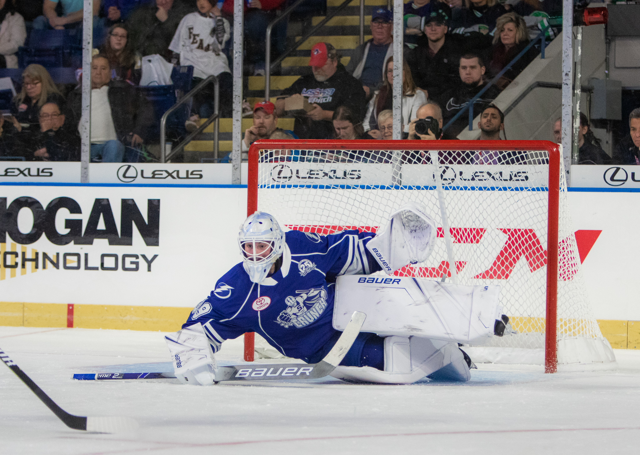 Photo By: Kelly Shea